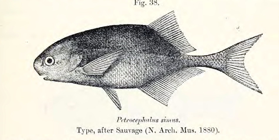 Petrocephalus simus Sauvage, 1879